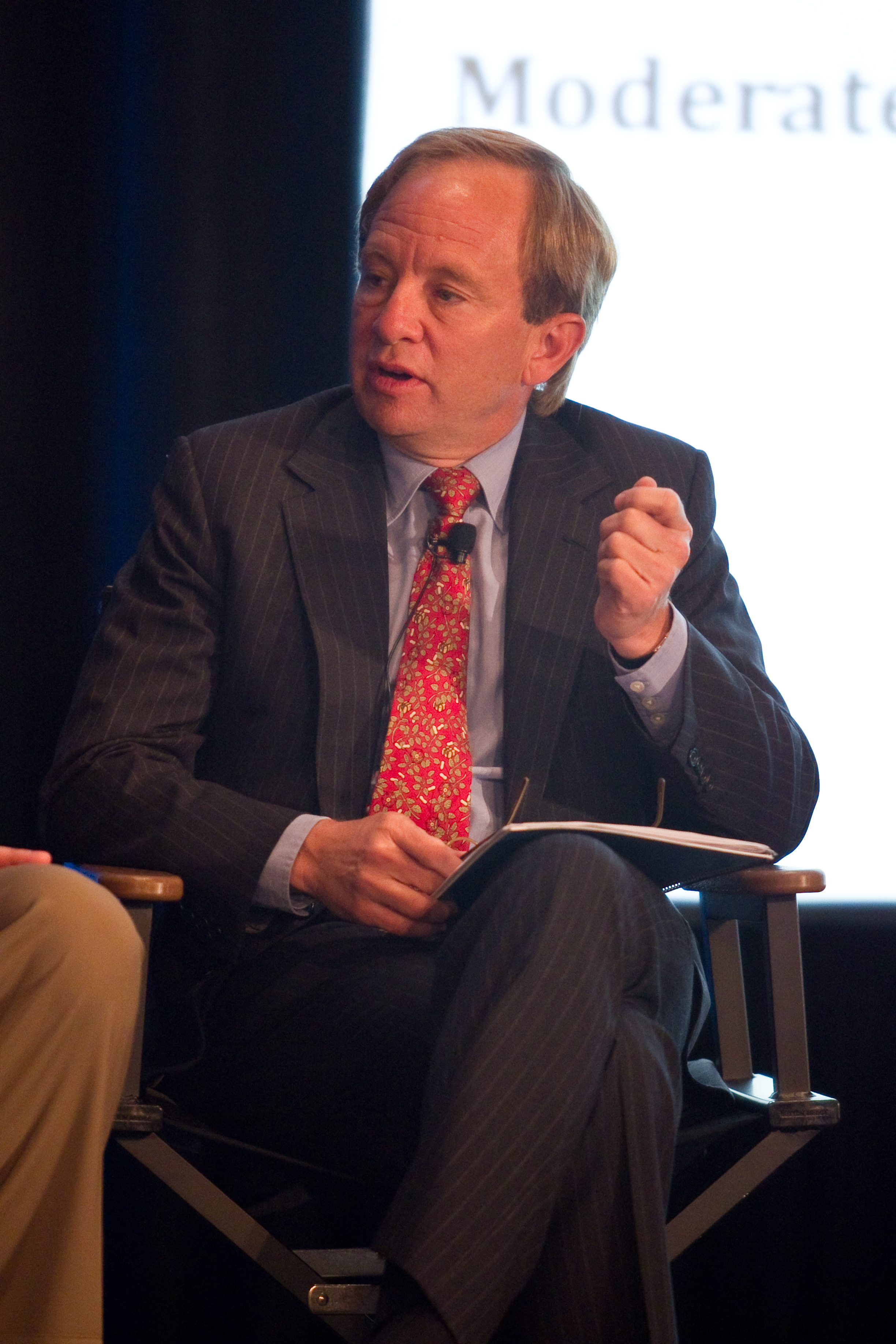 Steven Rattner at the Financial Times View from the Top conference. Photo credit: Daphne Borowski